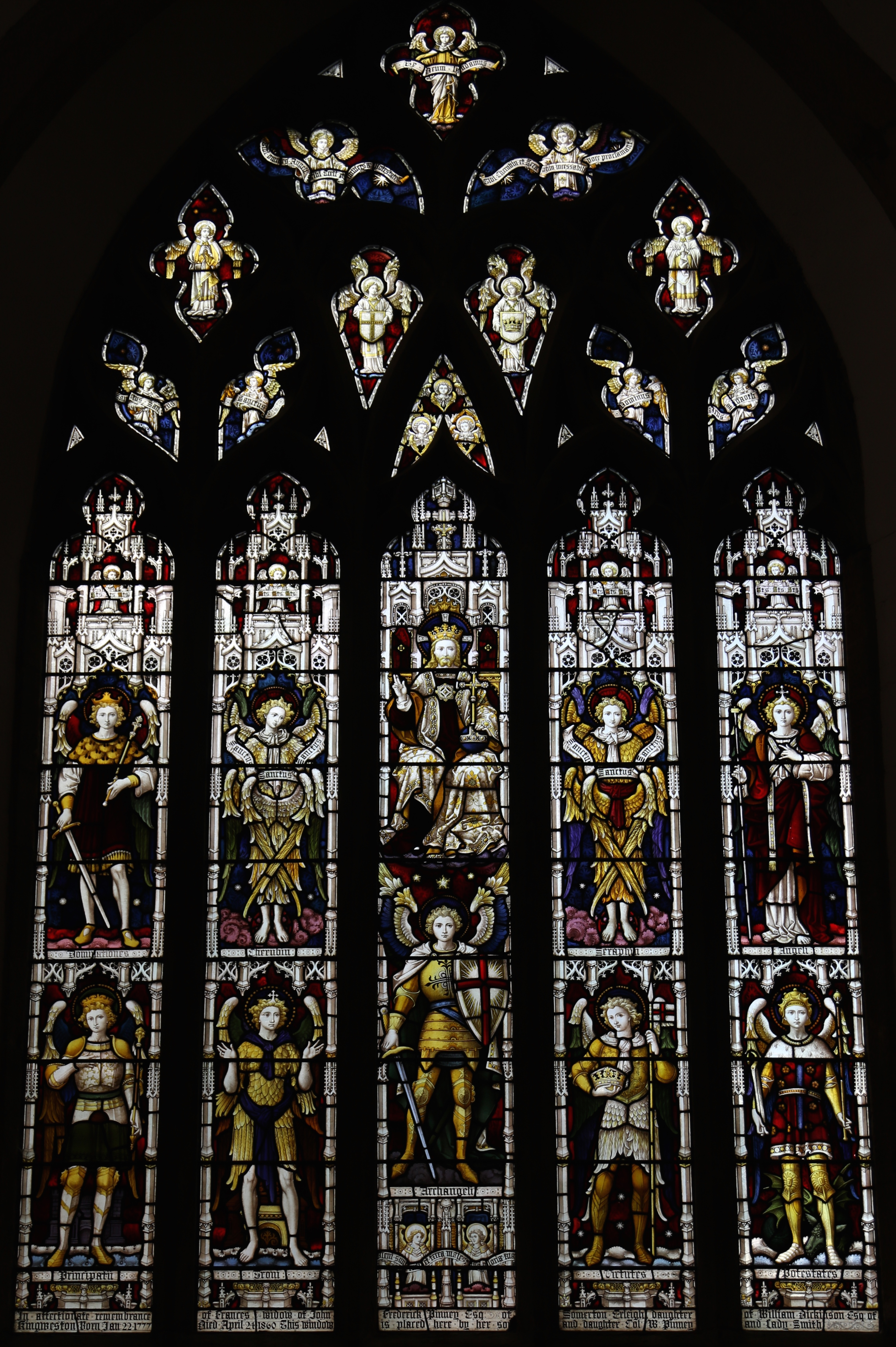 In memory of Frances, widow of John Frederick Binney